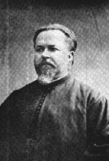 Bukovinan Rusyn priest Kassian Dmitrievich Bogatyrets (Kasyan Dmytrovych Bohatyrets, Casian Bohatireț), from an election poster (1911 elections for the Diet of Bukovina, Austria).